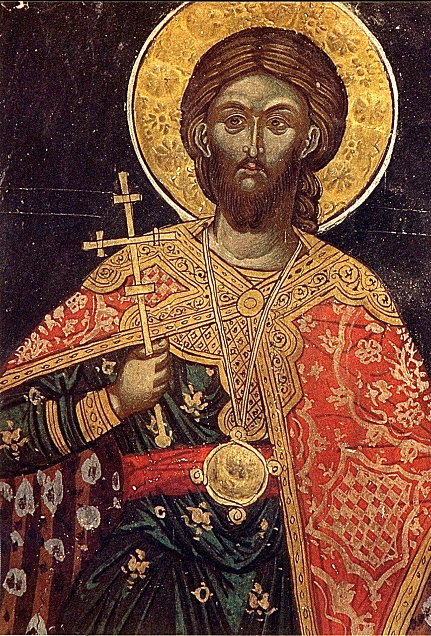 Transfiguration of Jesus Monastery in Driovouno Drianovo, Unknown Saint Fresco, 1652